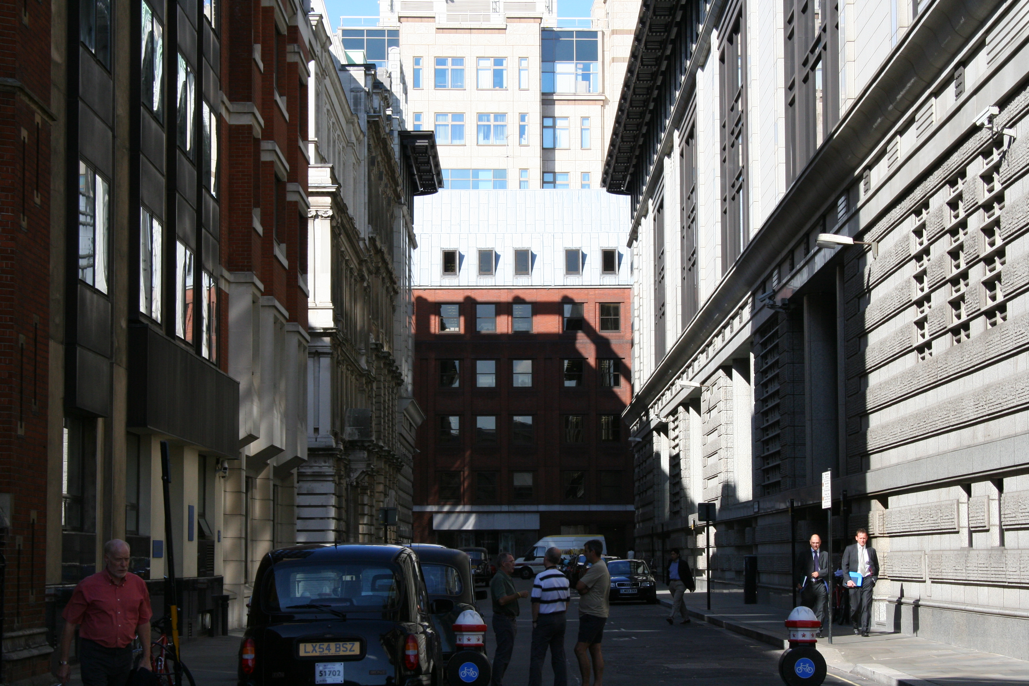 A view of John Carpenter Street, London